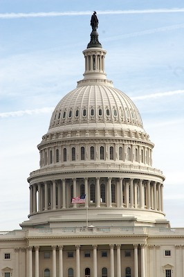 The US Capitol Building Rotunda